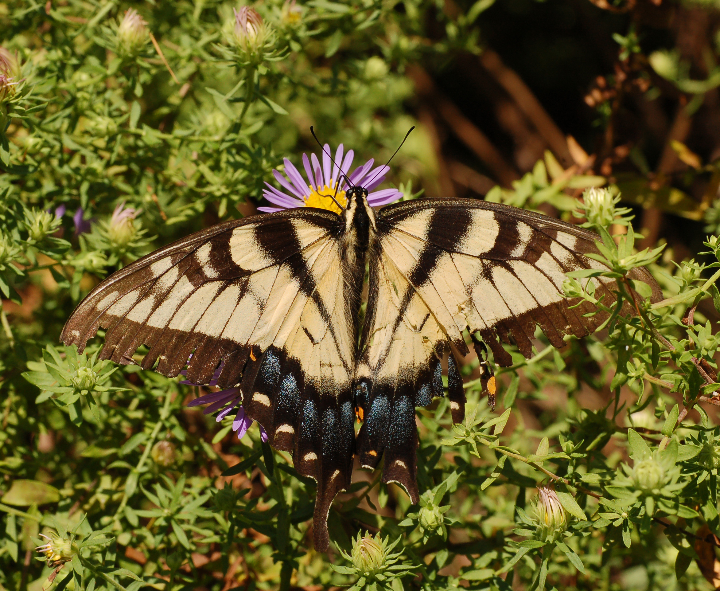 Photograph of an Eastern tiger swallowtail (Papilio glaucus en ). Photo taken at the Chanticleer Garden.